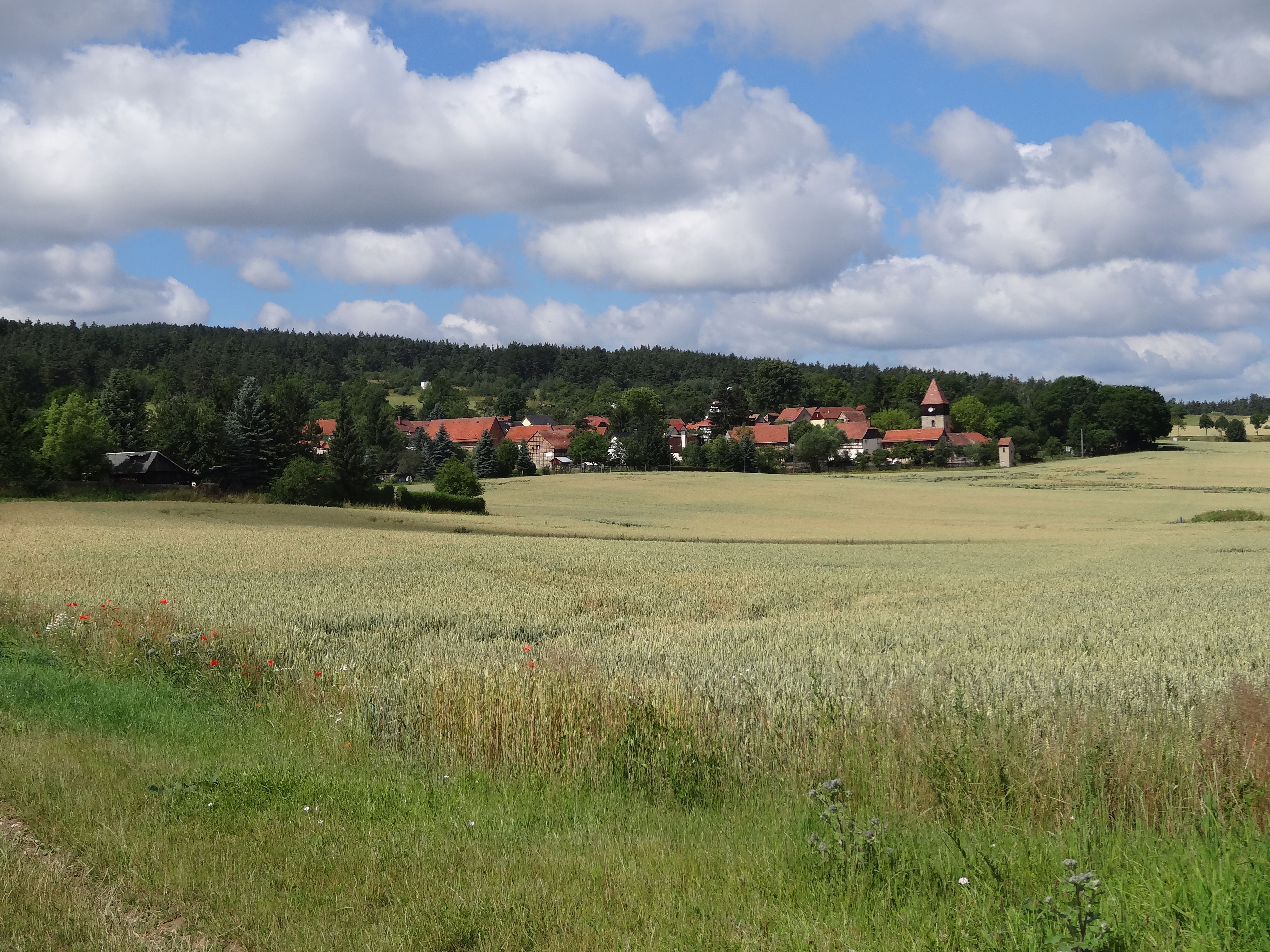 View on Espenfeld, Thuringia, Germany